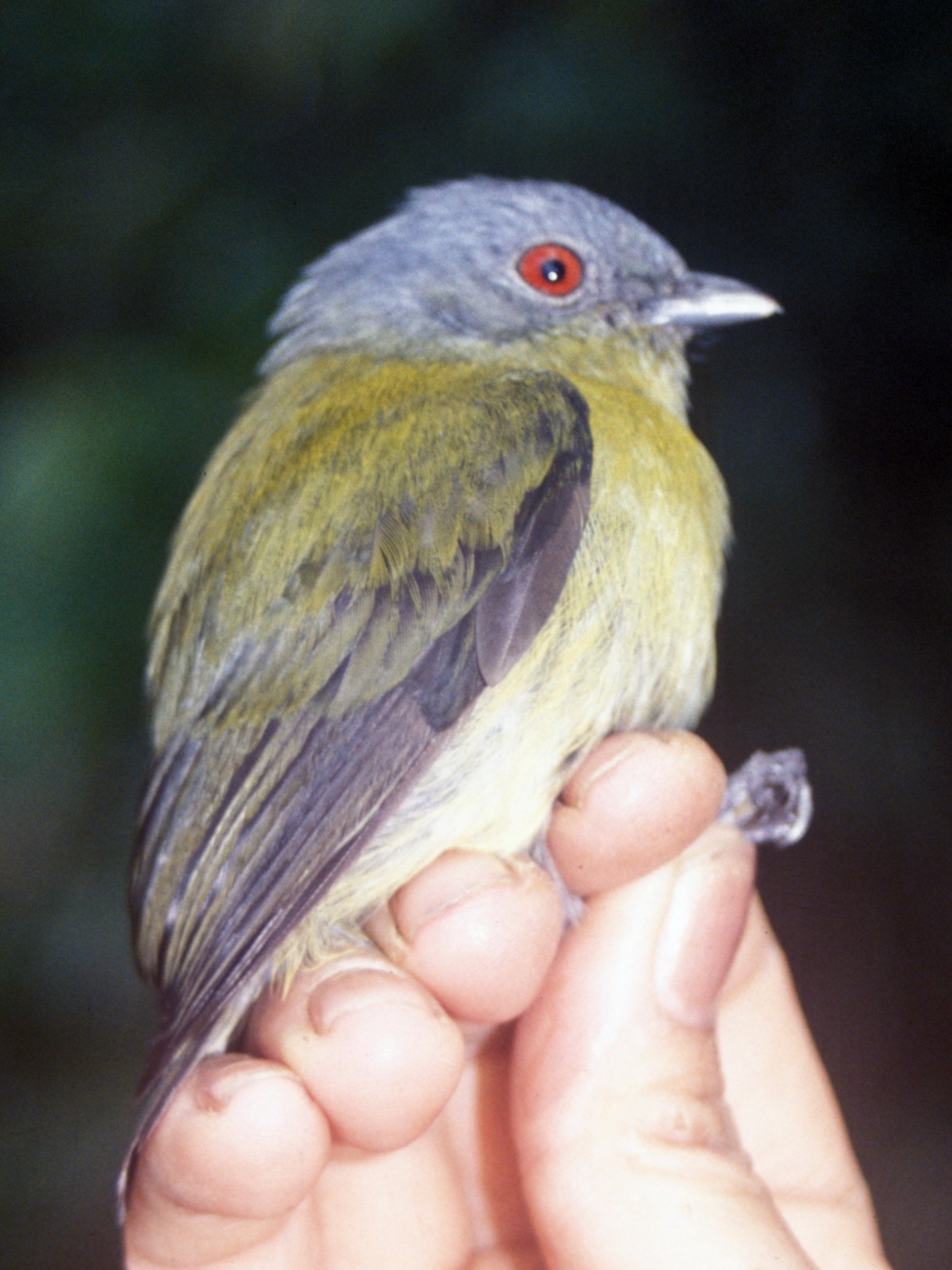 White-crowned Manakin (Dixiphia pipra), female from Ecuador